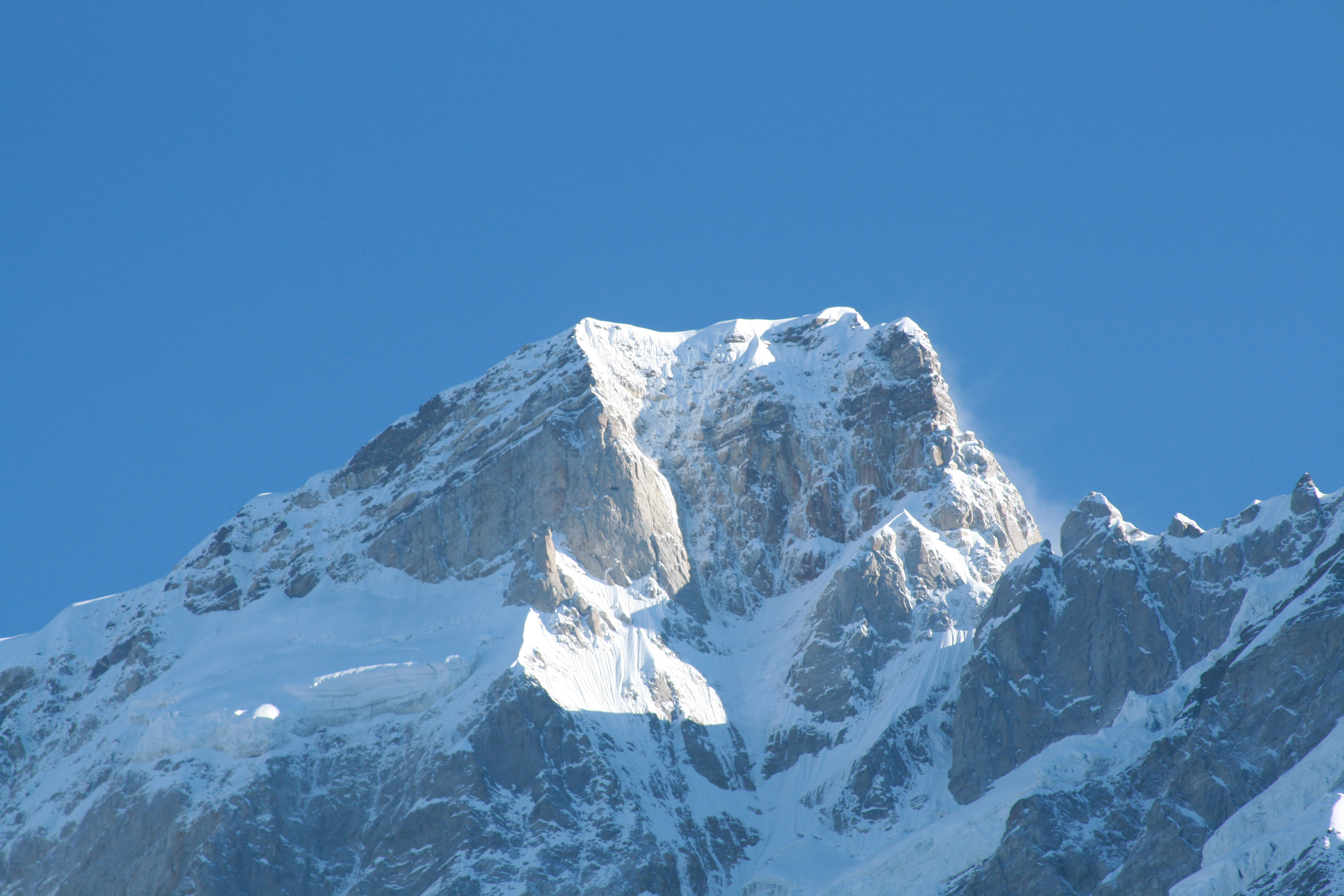 I went to trek the Kedarnath Mountain and the Holy Temple in Uttrakhand in Sep'08 in India.